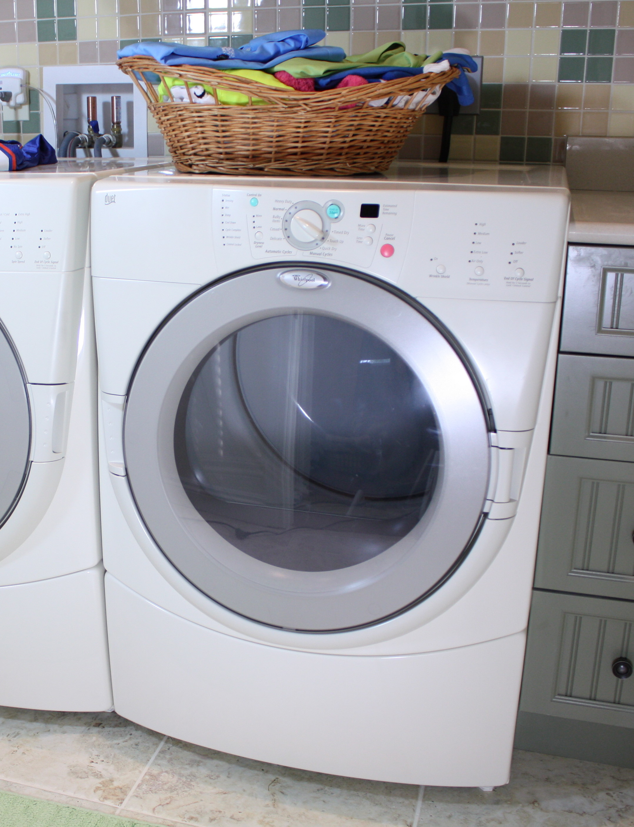 modern front load tumble dryer, picture taken by Rick Harpenau